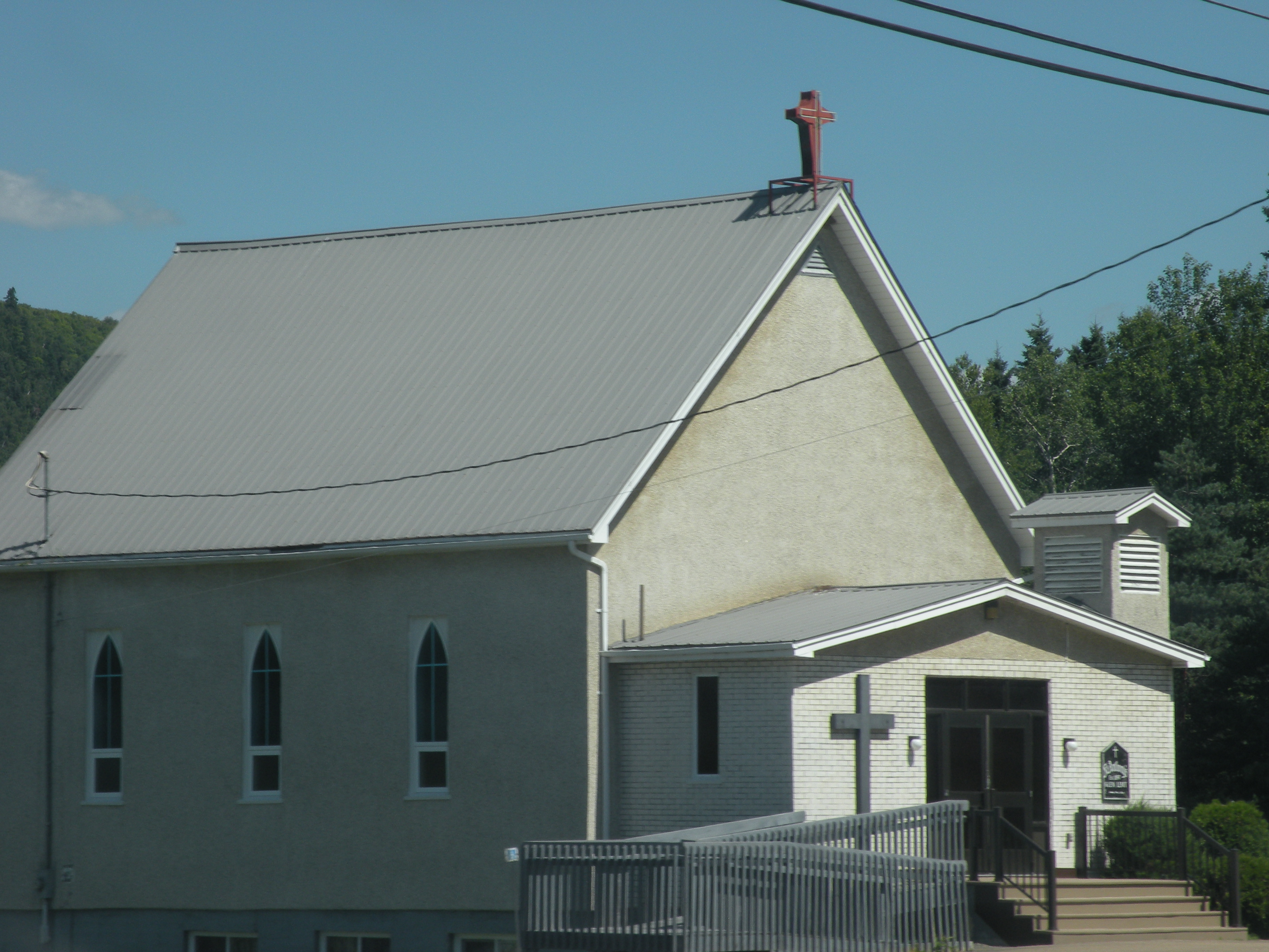 The Saint Athony roman catholic church in Glen Levit, New Brunswick, Canada.